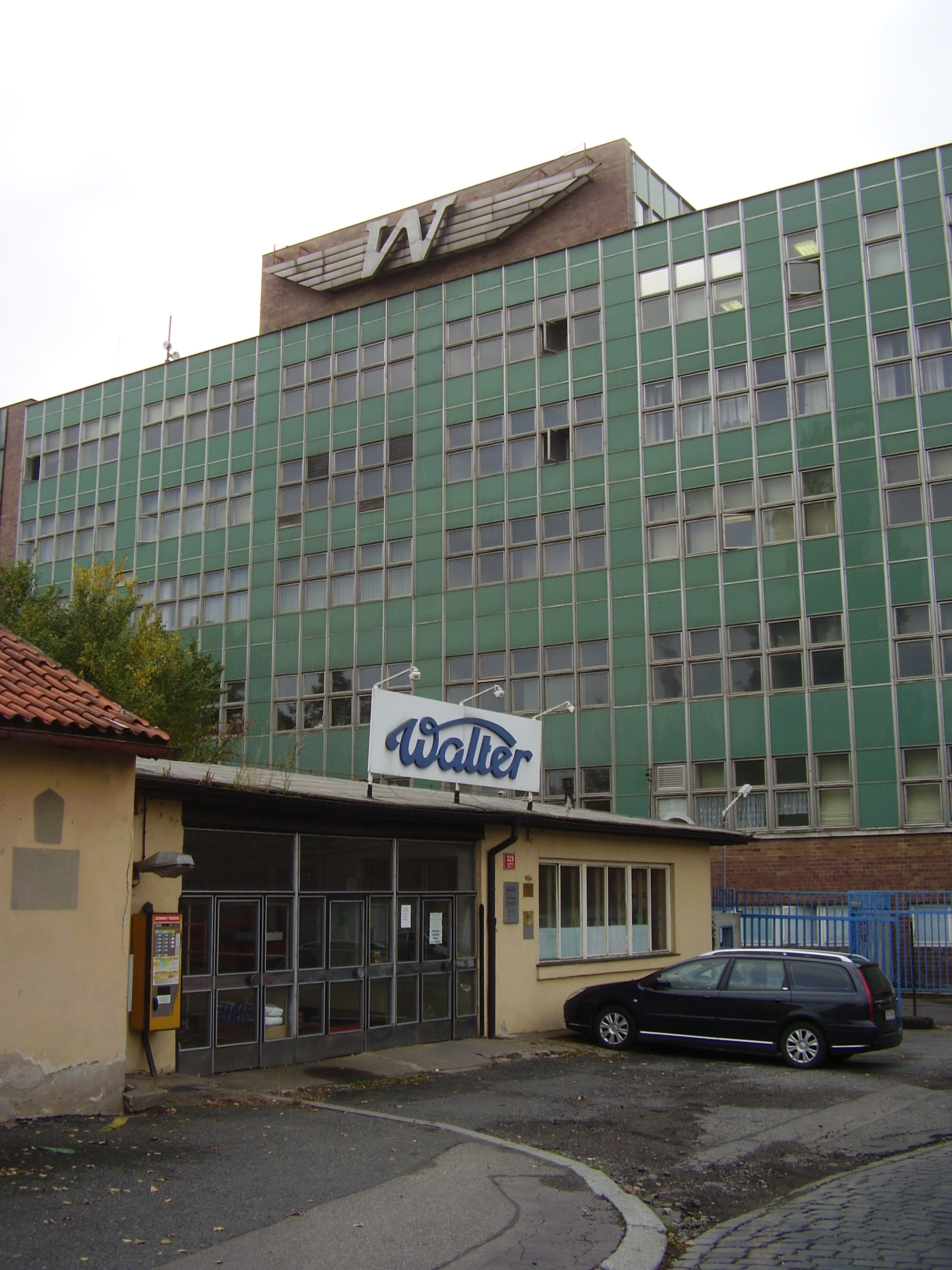 Walter aircraft engines factory in Prague - Jinonice - reception and main building